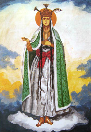 Ketevan of Kakheti